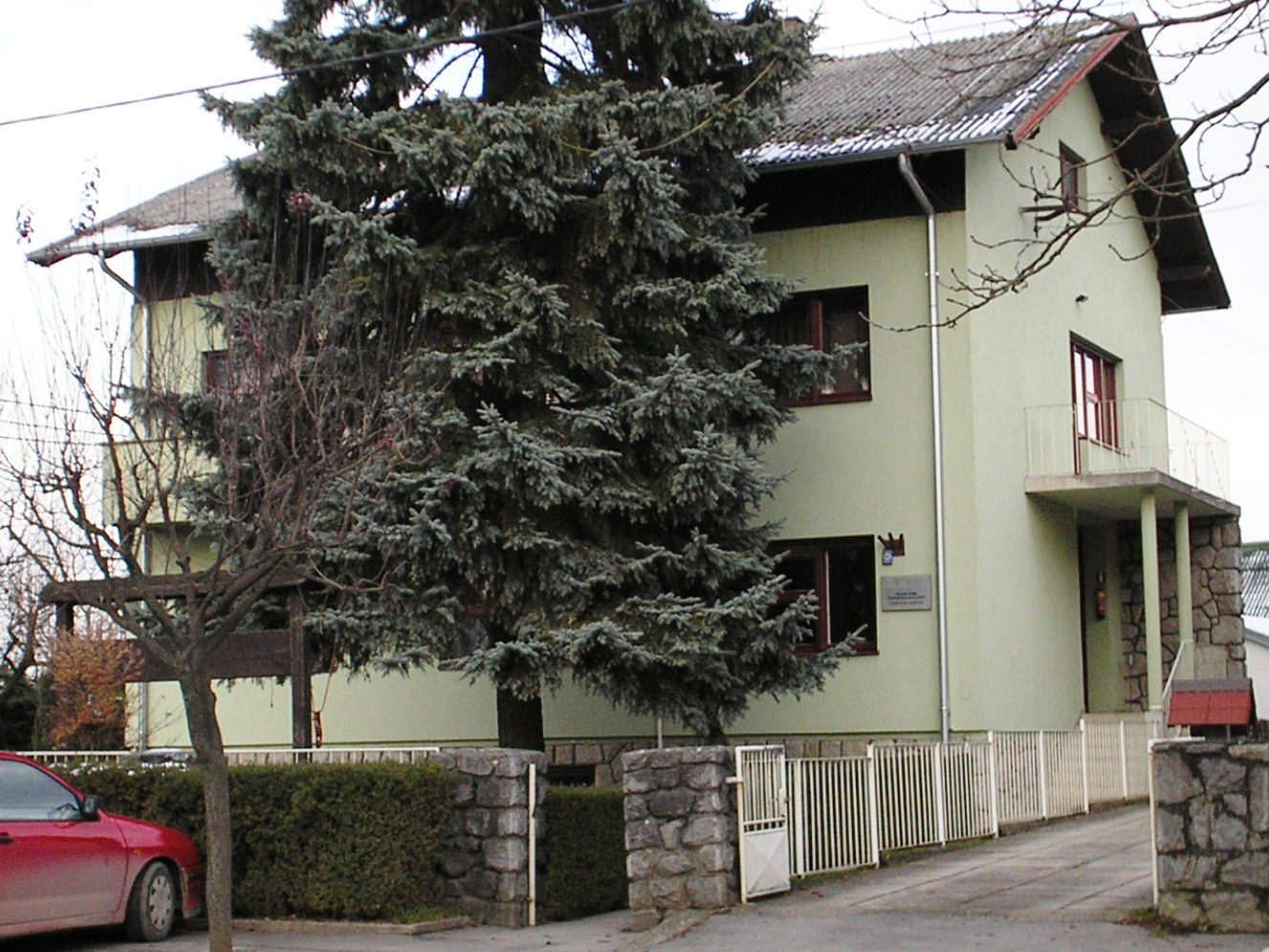 Forester's lodge in Ivanska, Croatia